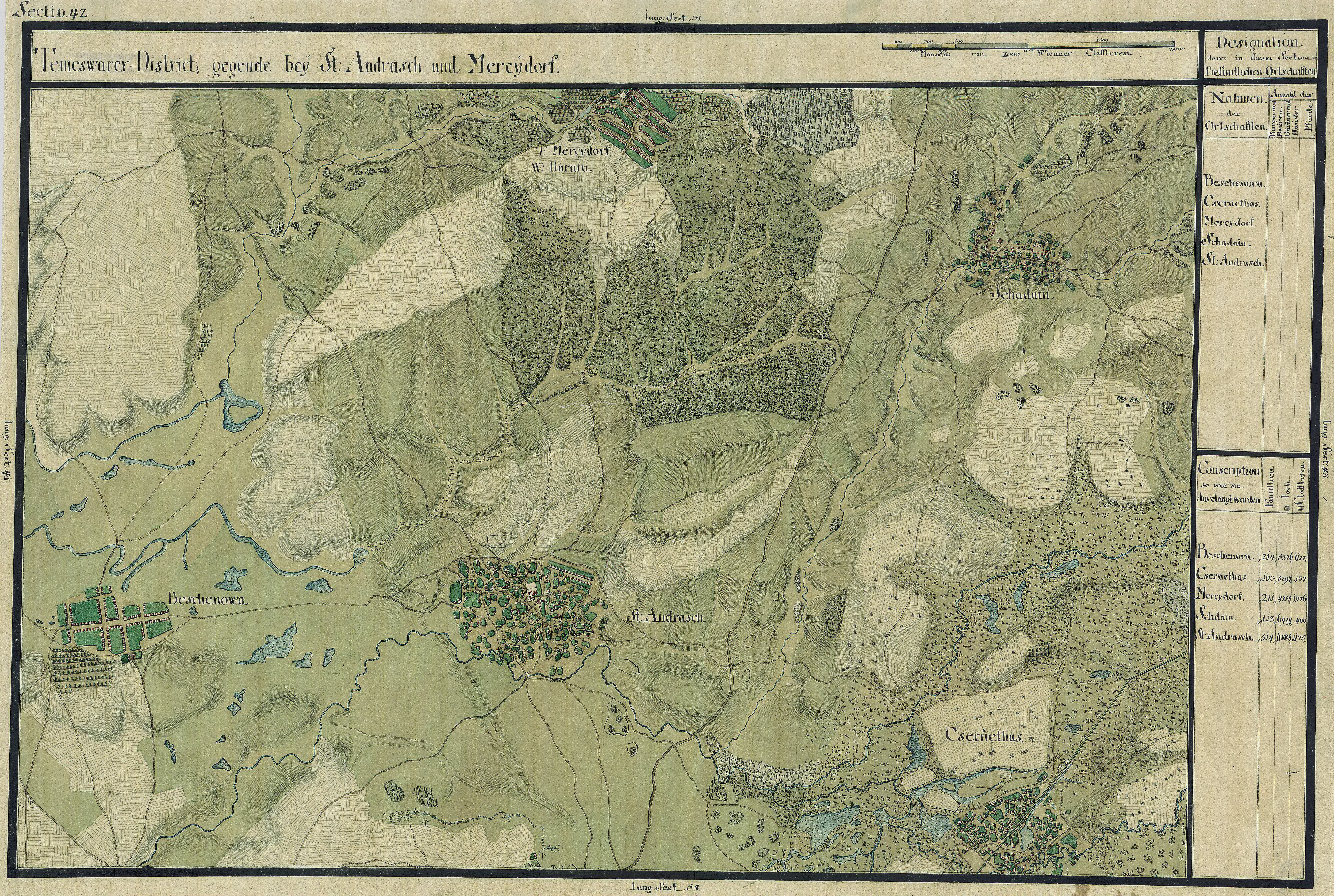 The Banat region in the cadastral maps: Josephinische Landesaufnahme, 1769-72. Josephinische Landaufnahme pg042